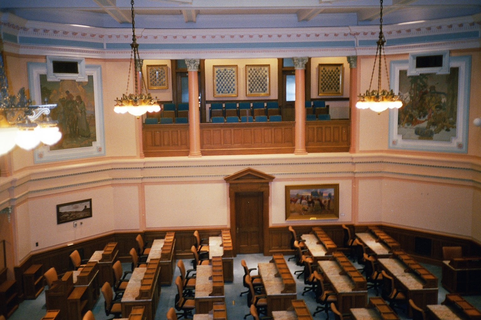 Conference room for the parliament of Wyoming